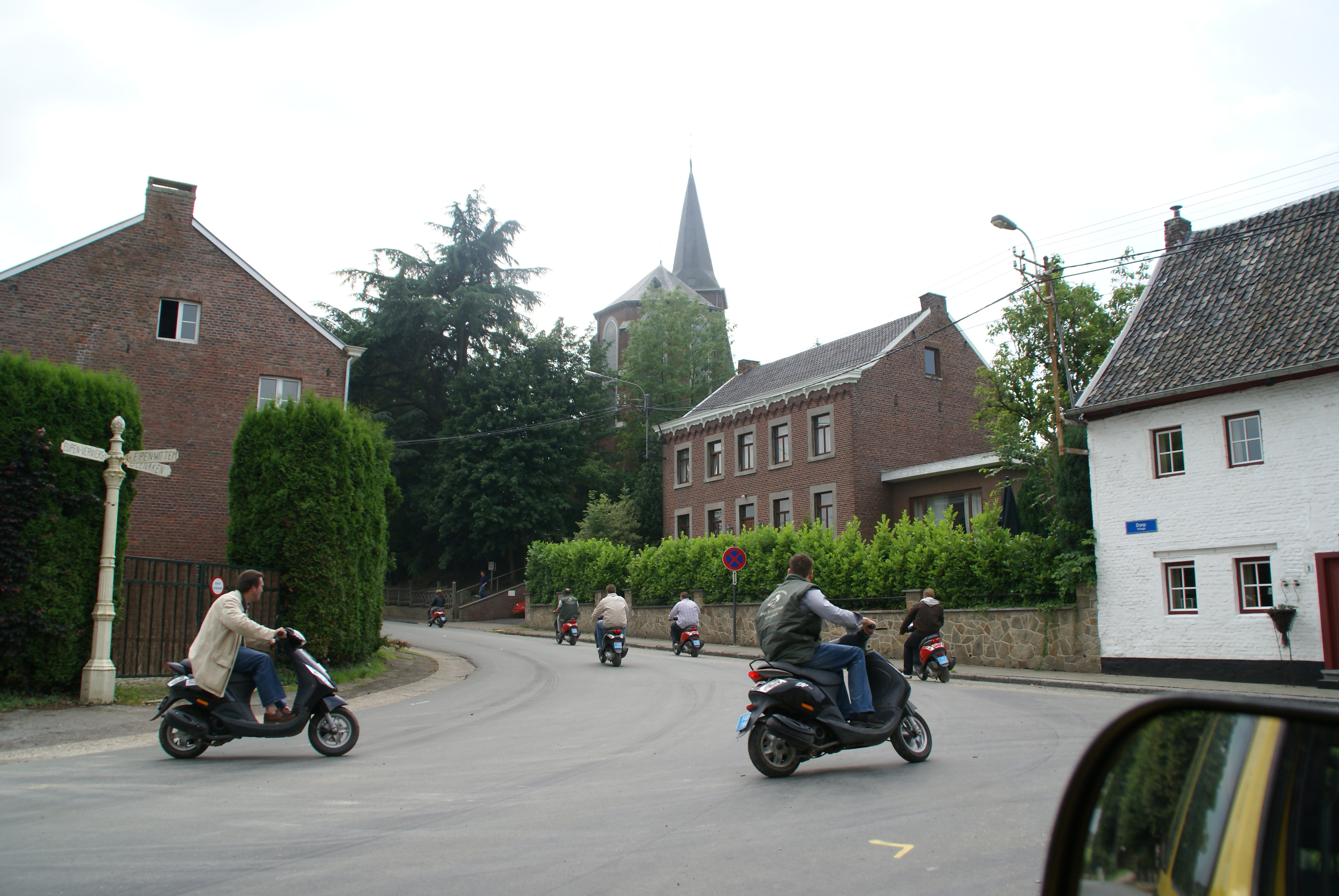 Teuven (Belgium): Village view